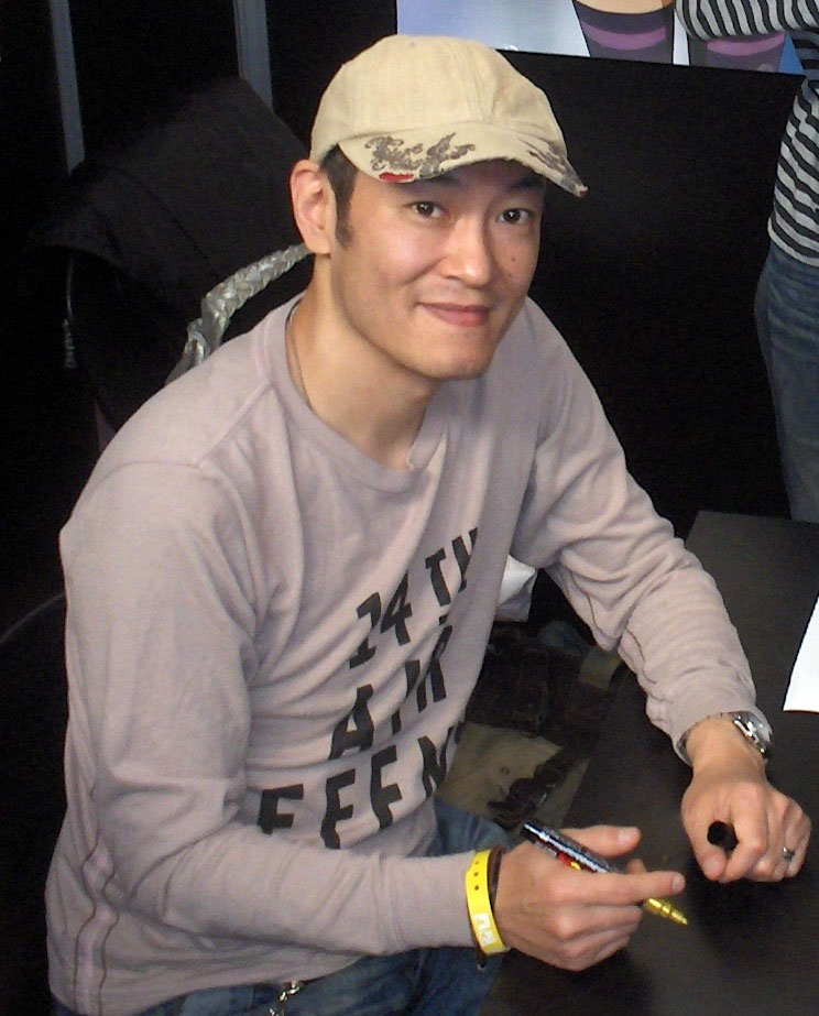 Japanese comics creators Masakazu Katsura at XII Salón del Manga de L'Hospitalet de Llobregat (Barcelona).